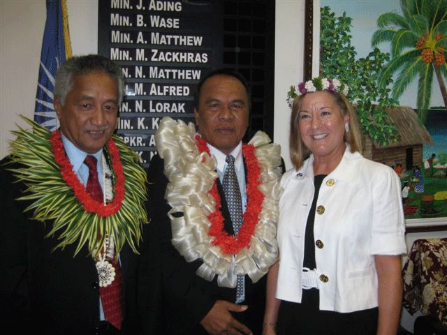 Speaker of the Marshall Islands Nitijela Alvin Jacklick, President Jurelang Zedkaia, and U.S. Ambassador to the Marshall Islands Martha Campbell.